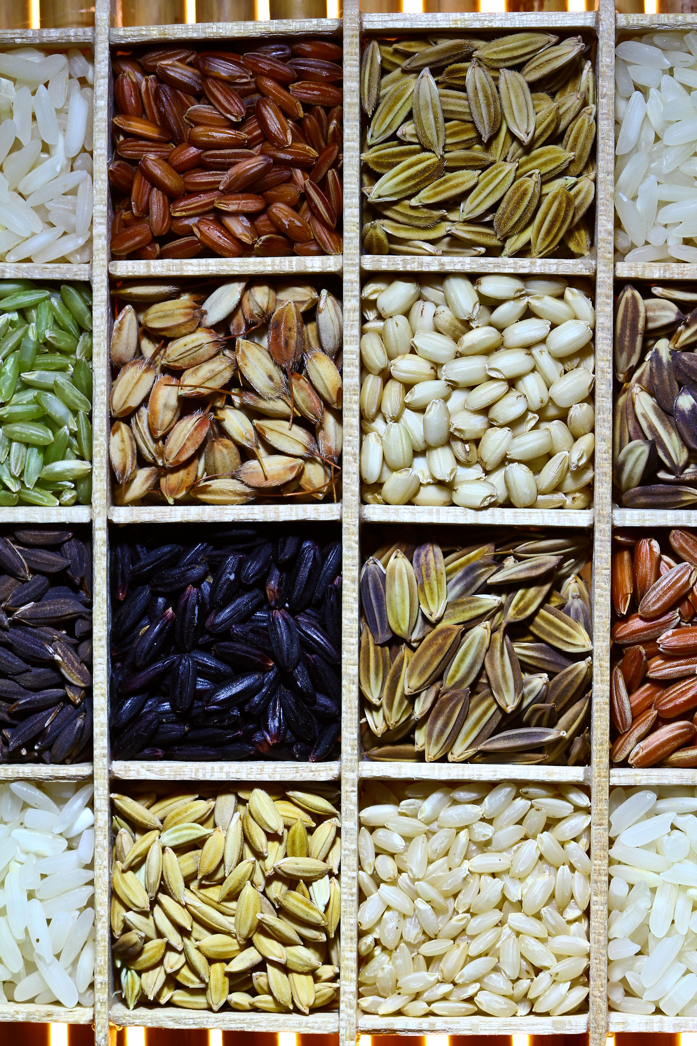 Rice Diversity. Part of the image collection of the International Rice Research Institute (IRRI).